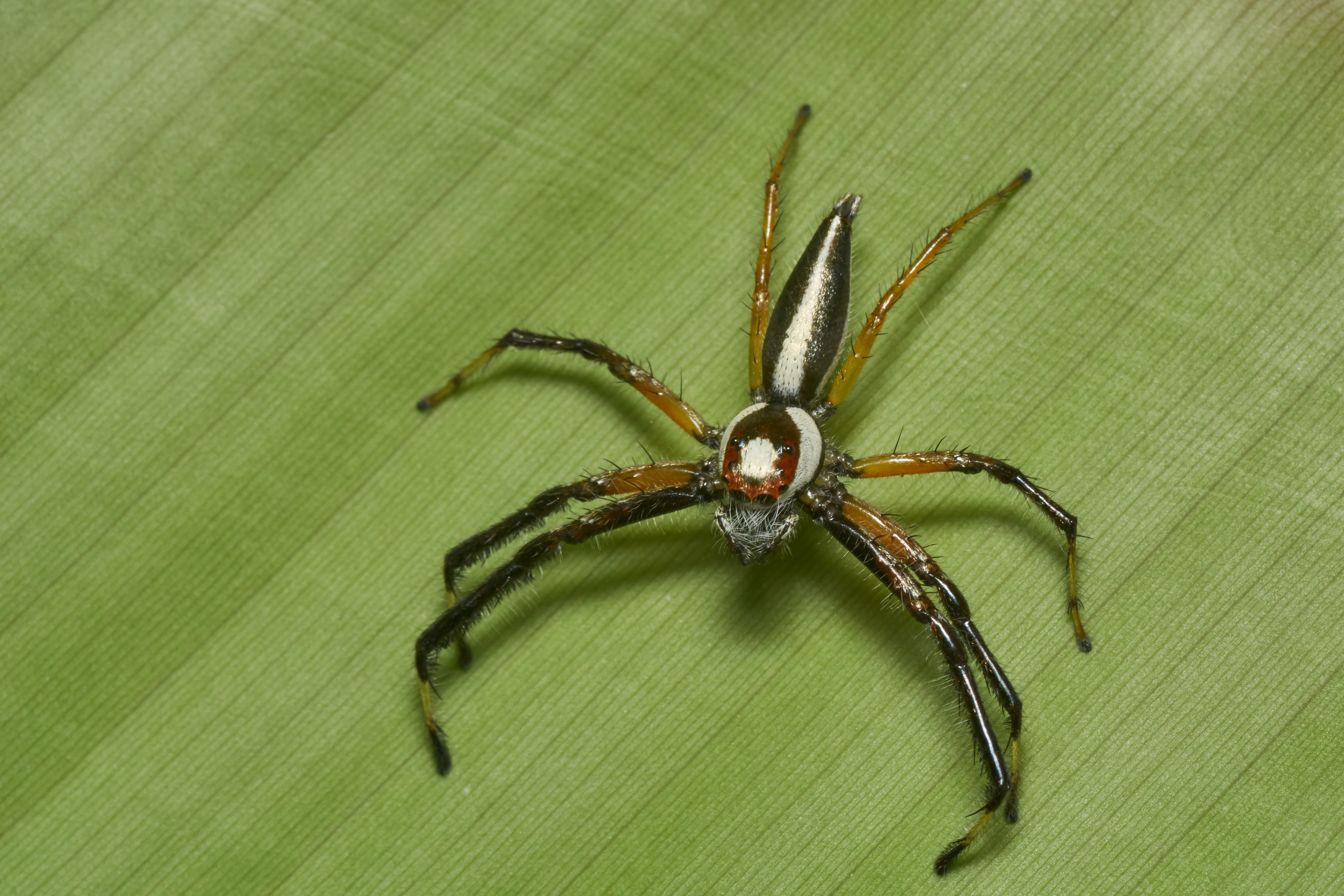 Telamonia dimidiata male